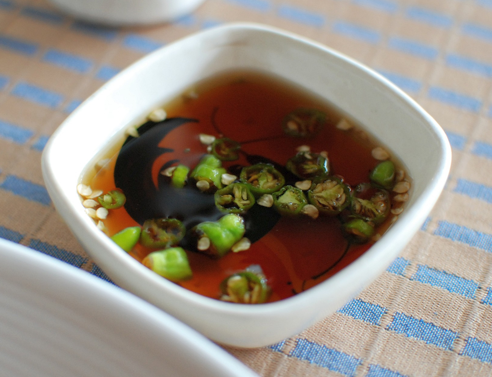 Phrik nampla or nampla phrik is a fish sauce (nampla) containing chopped chillis (phrik), usually bird's eye chilli (green, red, or mixed), sometimes including lime juice (nammanao) and chopped or thinly sliced raw garlic (krathiam). It is a standard sauce at nearly every Thai meal where it is used in much the same way as salt (albeit a spicy "salt").